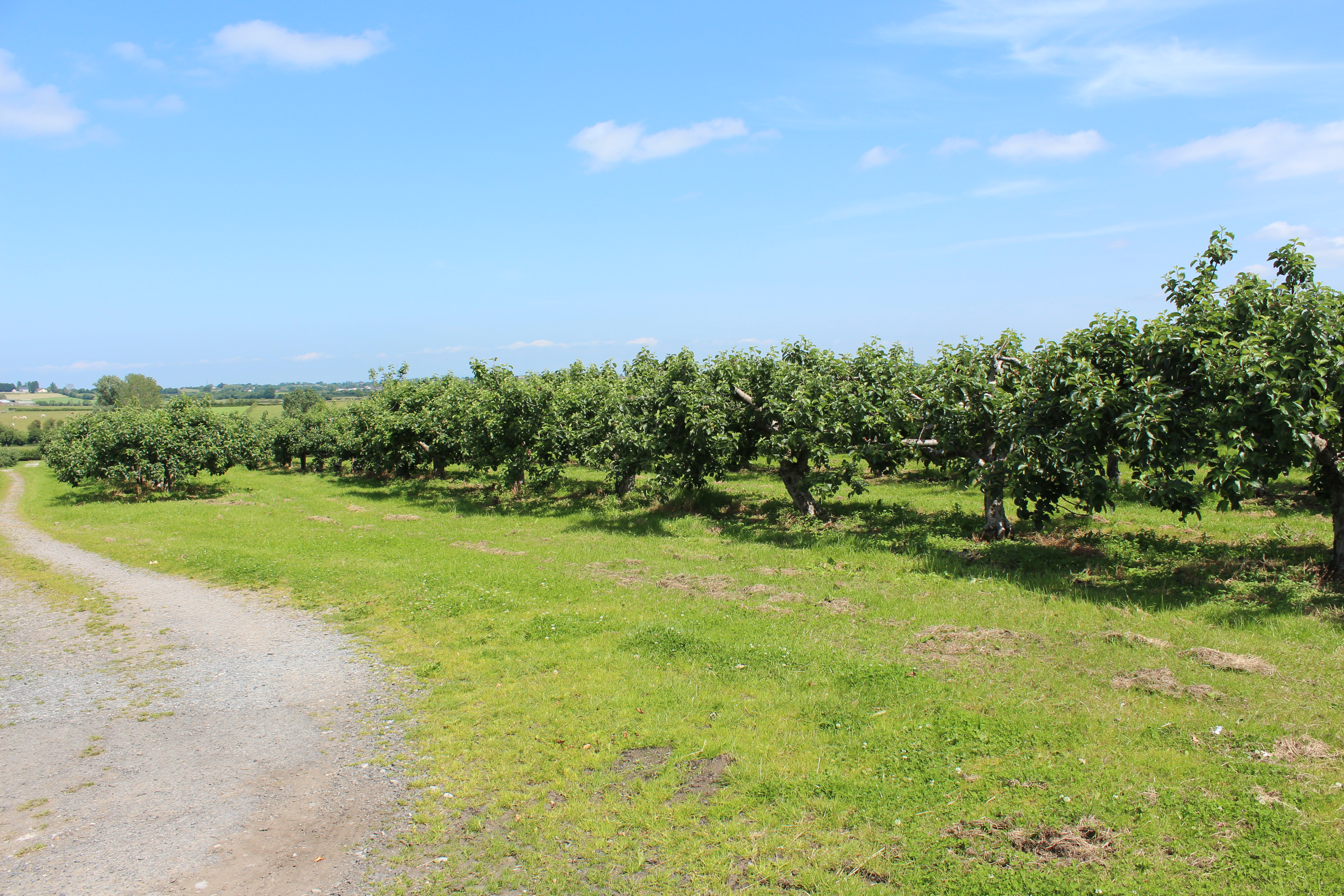 Orchard off Grange Road, County Armagh, Northern Ireland, July 2013 (near to Diamond Memorial Orange Hall)